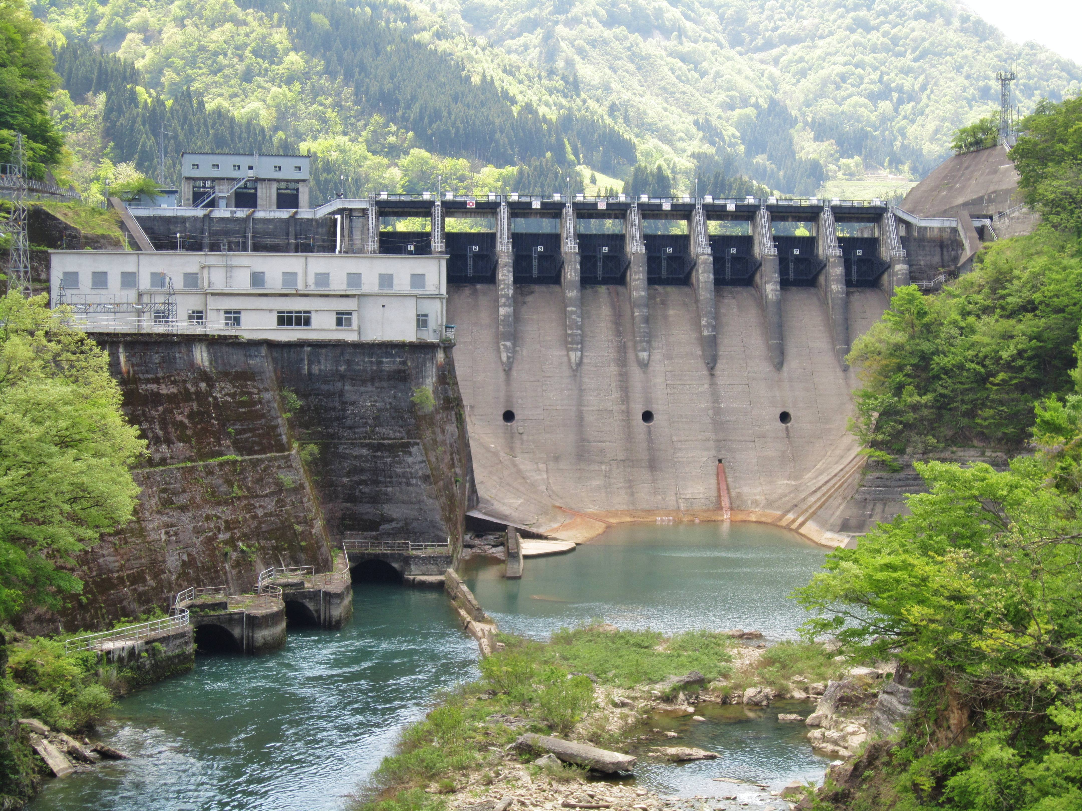 Ohara Dam.